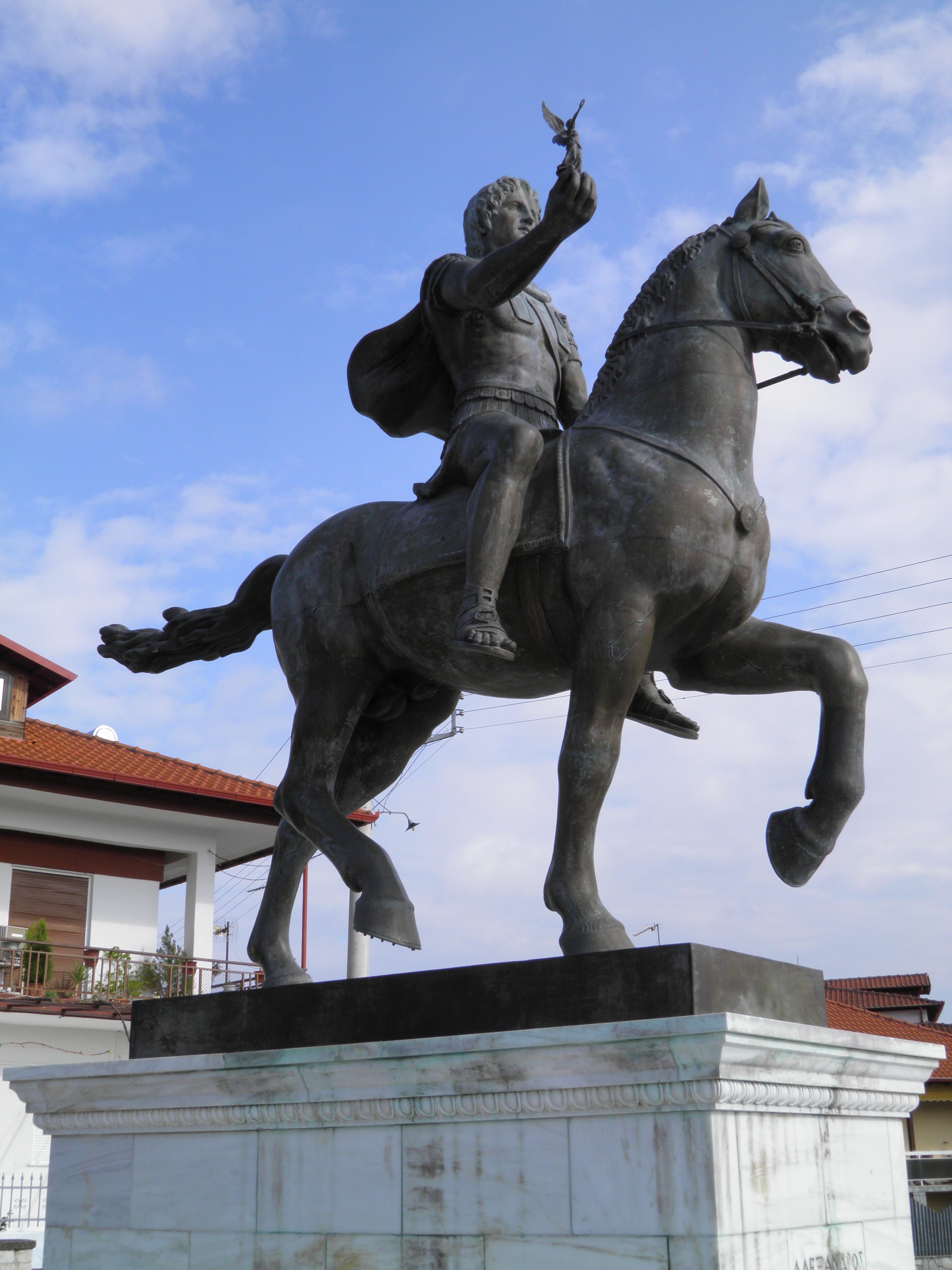 Statue of Alexander the Great riding Bucephalus and carrying a winged statue of Nike (square of Alexander the Great) in Pella city